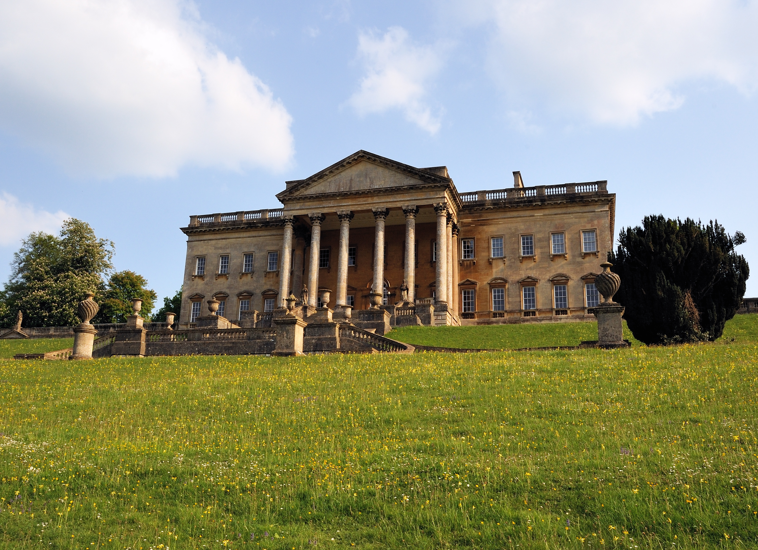 Prior Park College - Catholic Boarding School housed in a grade 1 listed Palladian mansion.